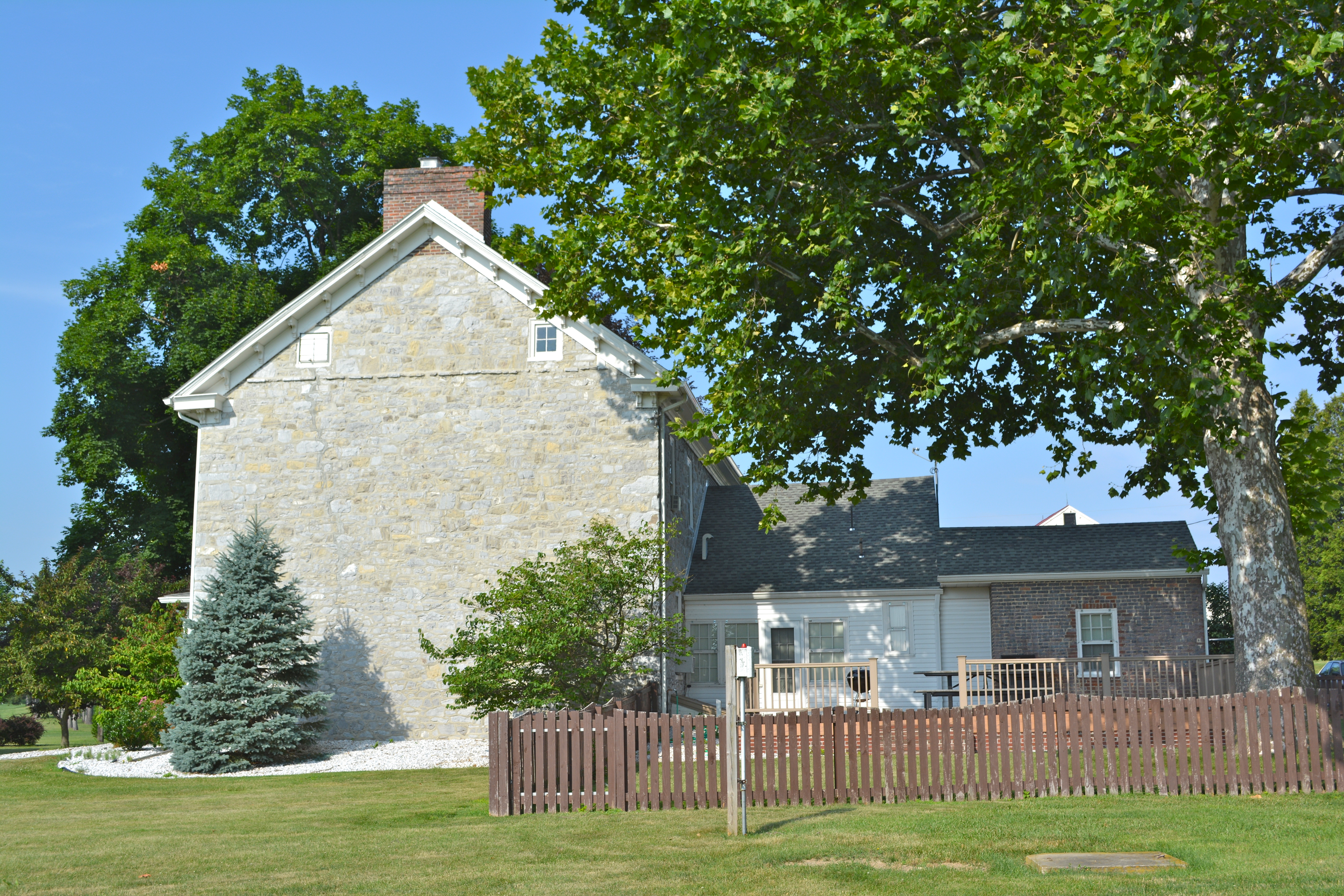 James Finley House listed on the NRHP on November 19, 1974 (#74001783) Building No. 505, Letterkenny Army Depot, serves as the post commander's residence. About 100 meters south of and outside the main gate. In Greene Township, Franklin County, Pennsylvania.